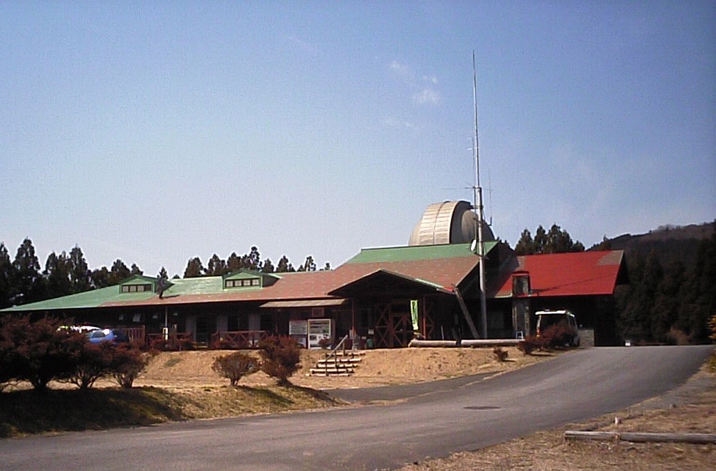 Star Forest Misono observatory at Aichi, Japan.